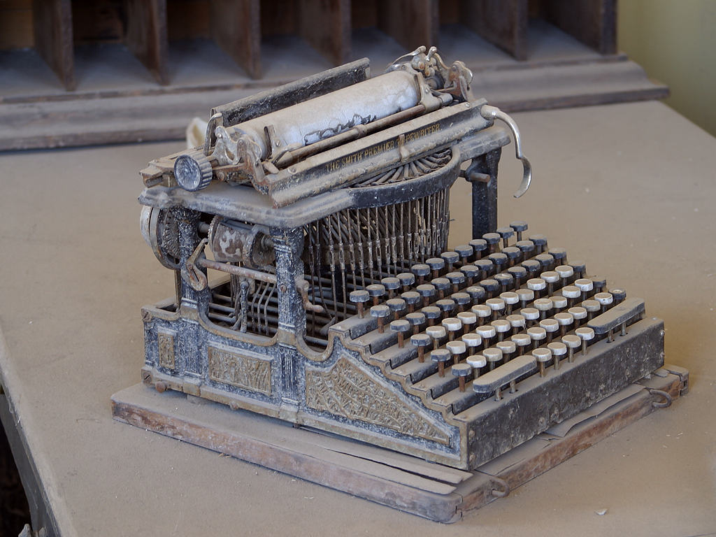 A very dusty Smith Premier Typewriter abandoned at one of the stores in the ghost town of Bodie, California. The Smith Premier 1 was introduced in 1889 and replaced by the less ornate SP2 in 1894. More information on the history of this model of typewriter can be found at